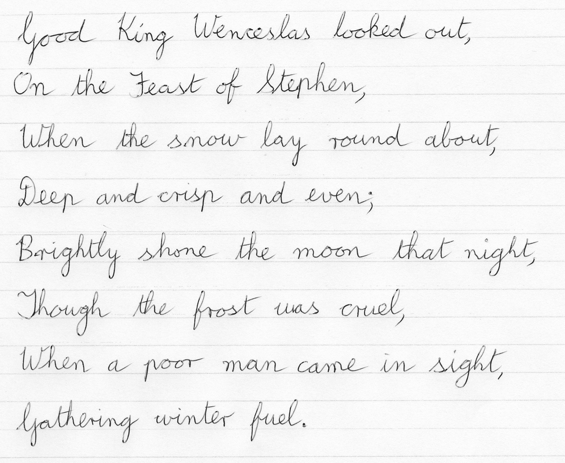 Handwriting example: Carol Good King Wenceslas published 1853 by John Mason Neale written in looped cursive handwriting of uploader. See also sample alphabet at file:Looped cursive alphabet.jpg. The style of handwriting is the same as described at